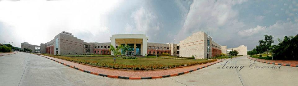 Academic Block Panorama (BPHC)